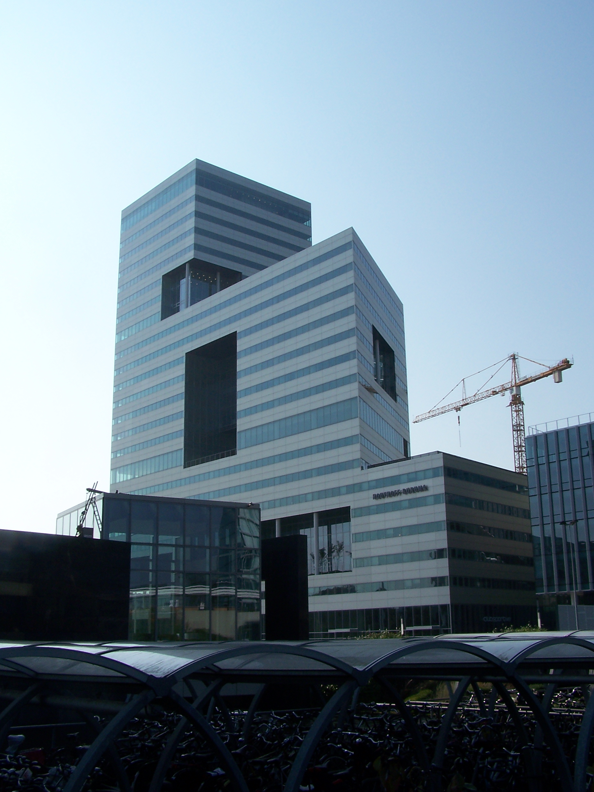 This picture shows the Zuidas in Amsterdam. Author: Mig de Jong, september 2005